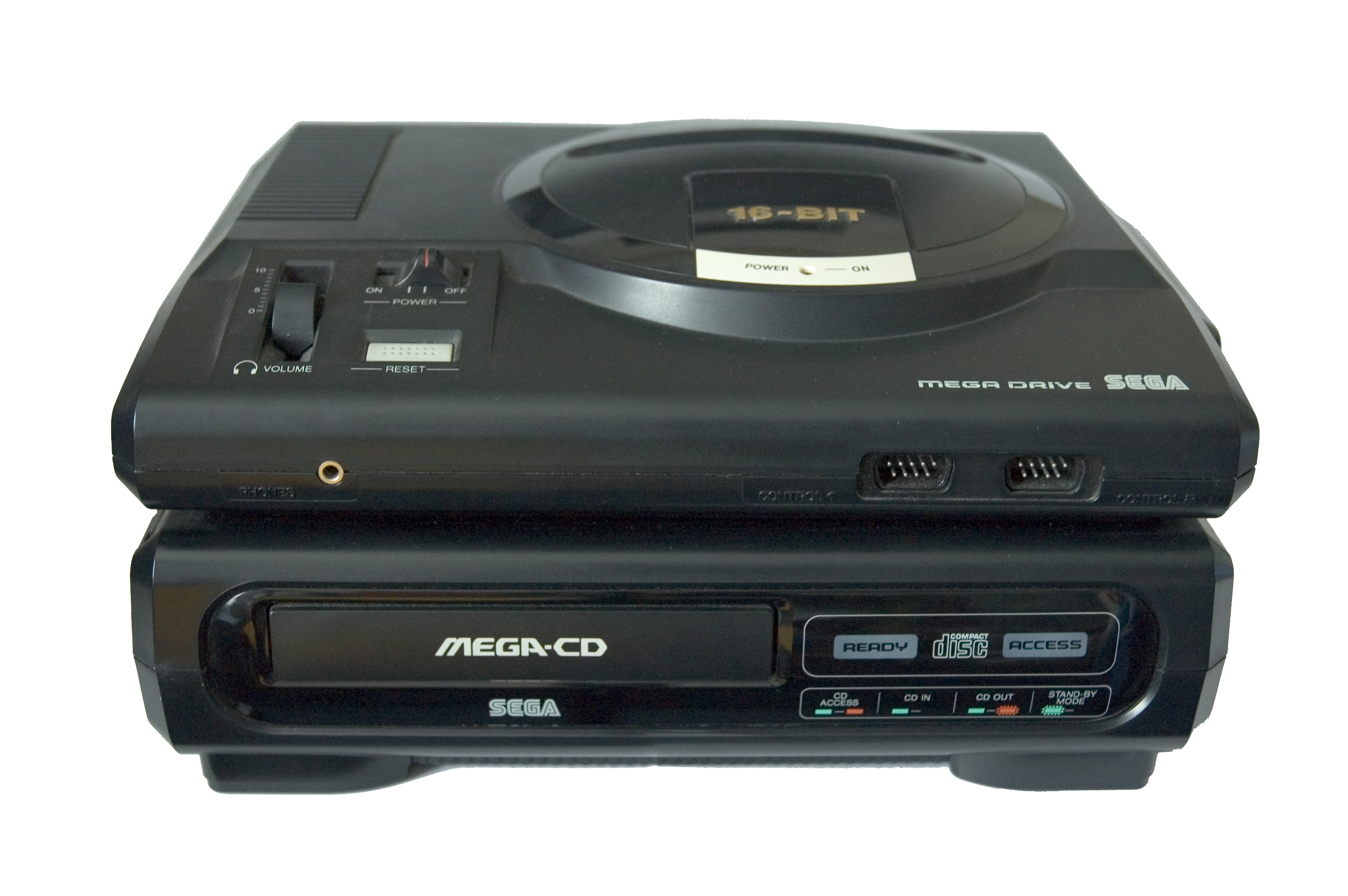 Sega Mega-CD console sitting underneath a Sega Mega Drive. Both consoles are the original launch design and both are European versions.